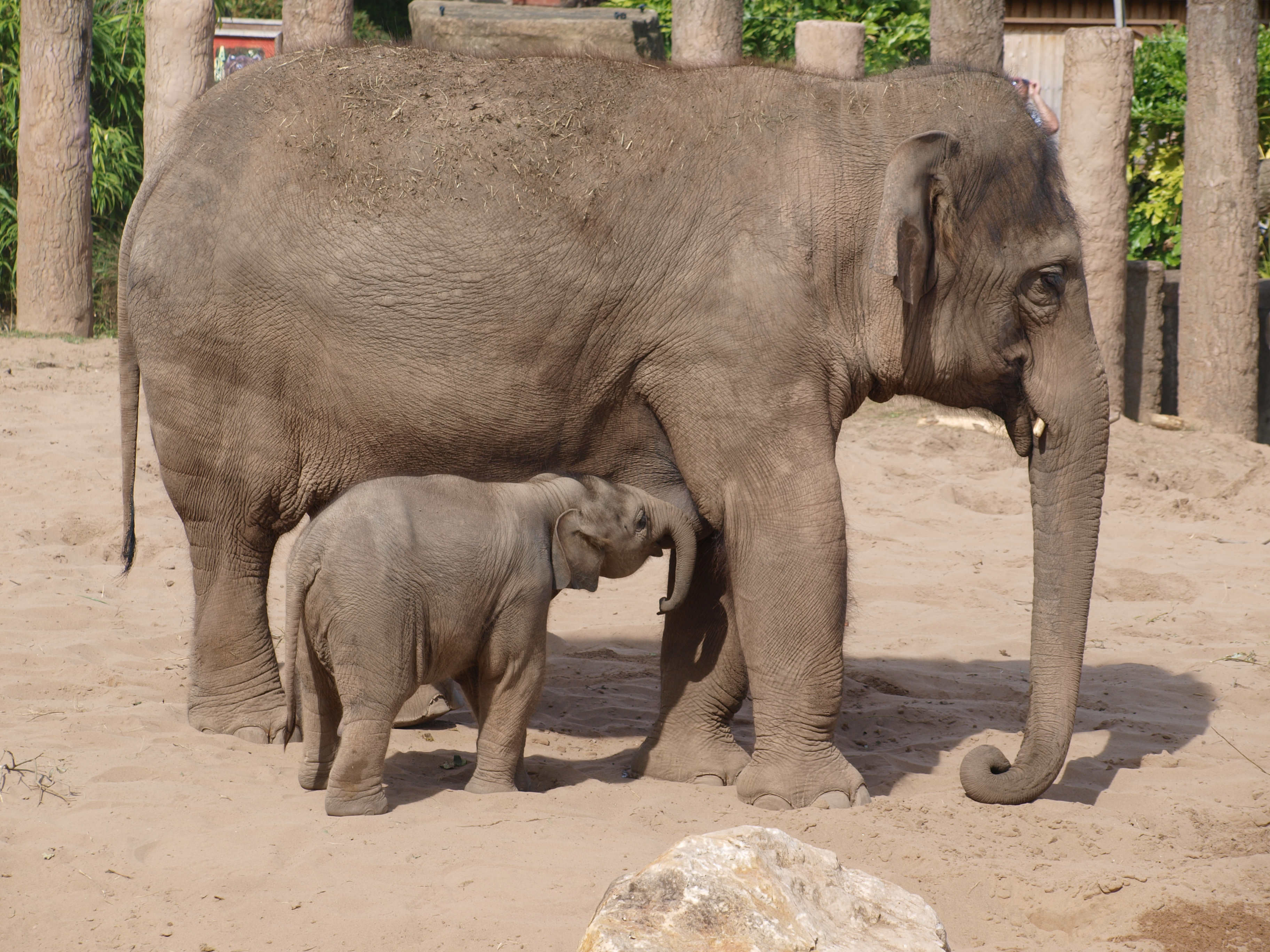 Elephants in Chester Zoo